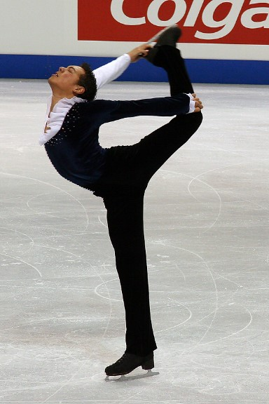 Jamal Othman performs a half-Biellmann spin at the 2006 Skate Canada International.